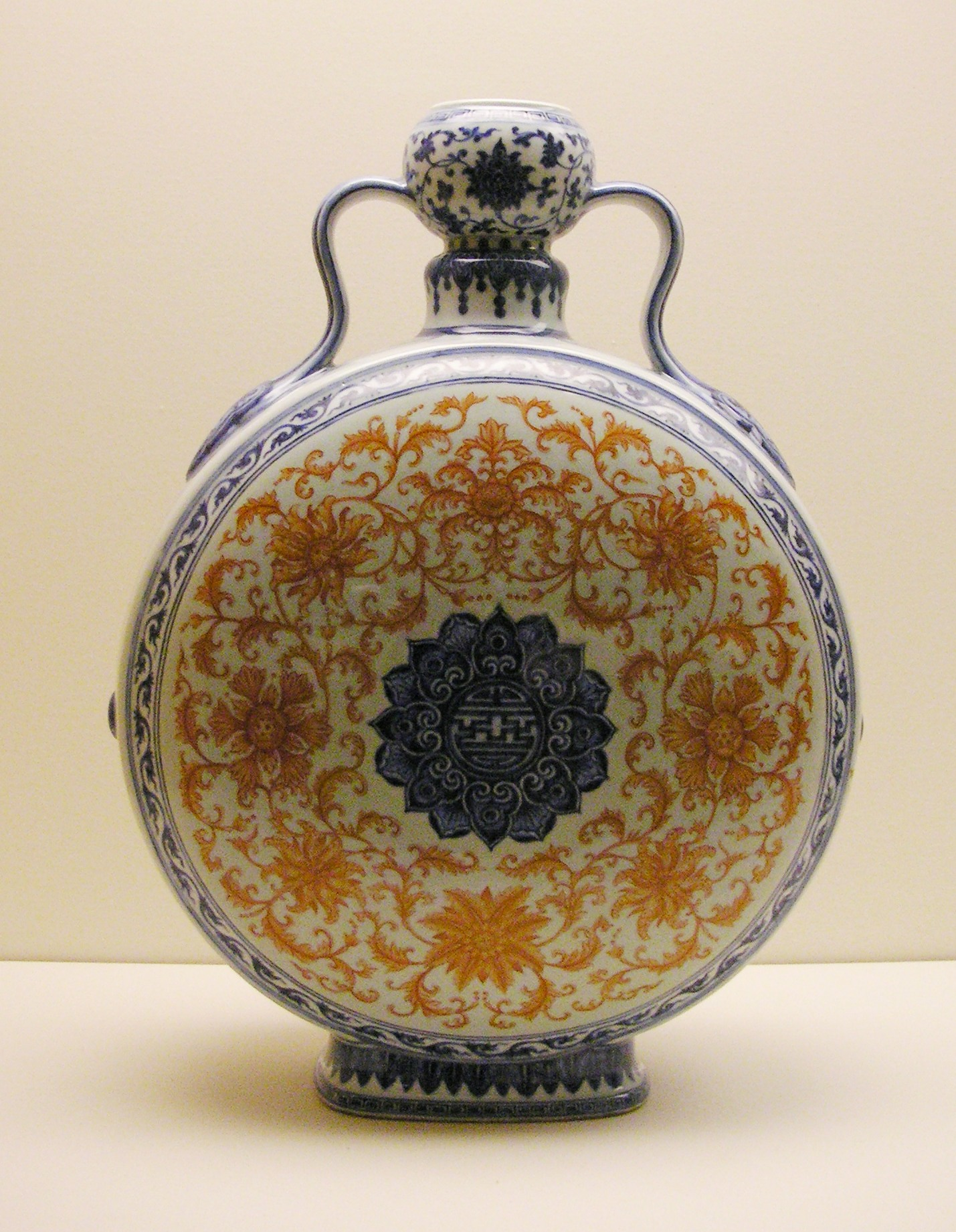 Pilgrim flask, porcelain with underglaze blue and iron-red decoration . Qing dynasty, Qianlong period (1736-1795). Signature at the bottom reads translated Da Qing Qianlong nian zhi. Object was bought by the Imperial German envoy Max von Brandt (1835-1920) in Beijing. At Museum für Ostasiatische Kunst, Berlin-Dahlem.